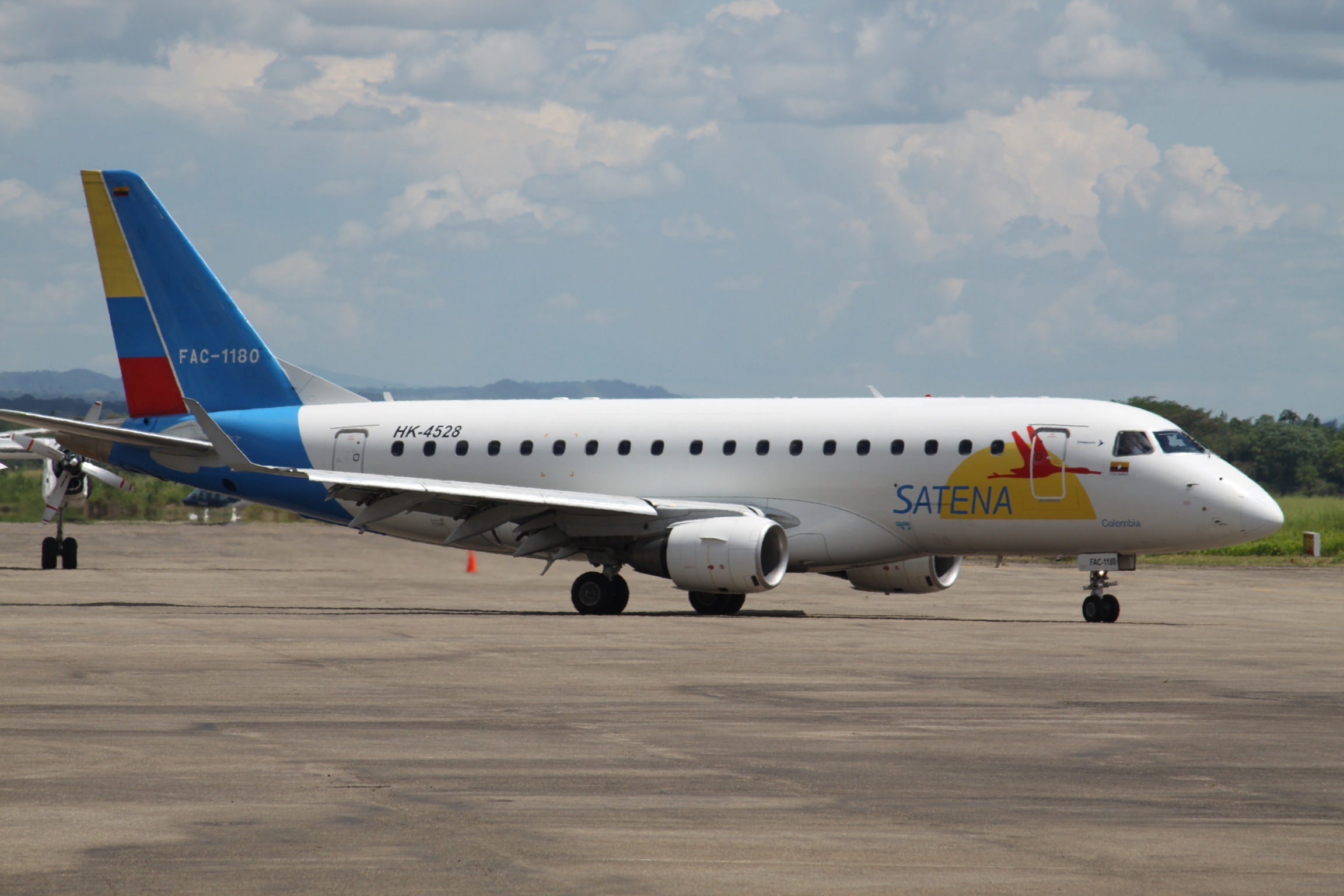 At Villavicencio La Vanguardia